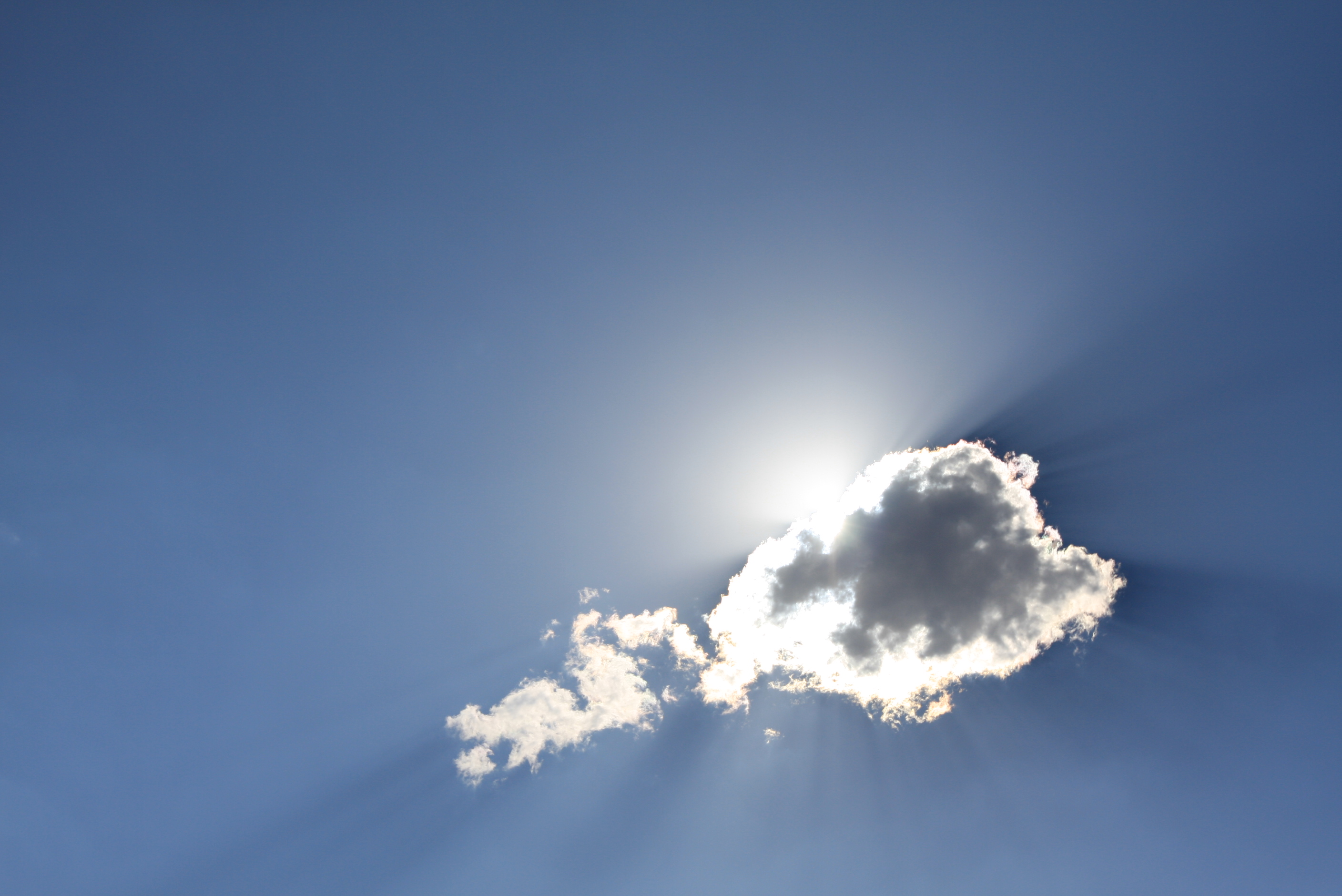 High above the cloud, the Sun stays the same. The Sun shines from behind a white cloud, forming crepuscular rays. The photo was taken at Wilson Ranch Overlook, Ross Maxwell Scenic Drive, Big Bend National Park, Texas, USA.